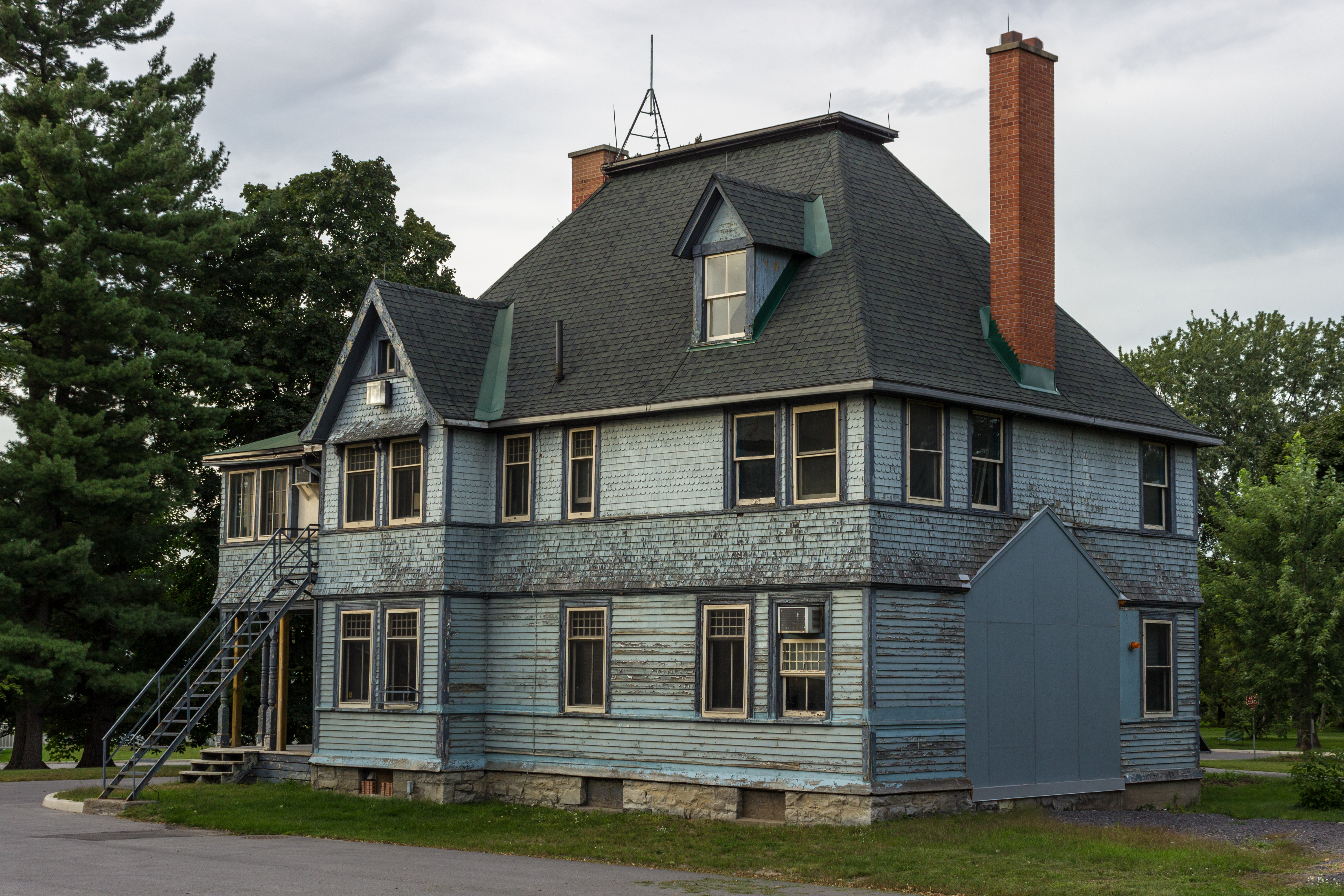 Rear view of Heritage House (Building 54) at Central Experimantal Farm in Ottawa